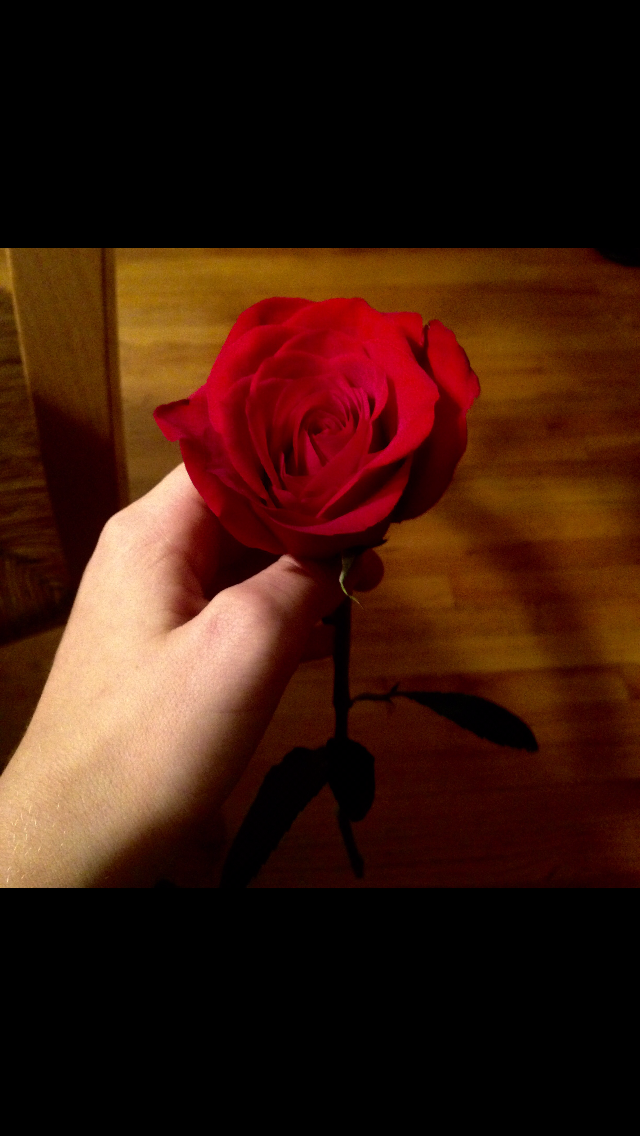 Red Rose